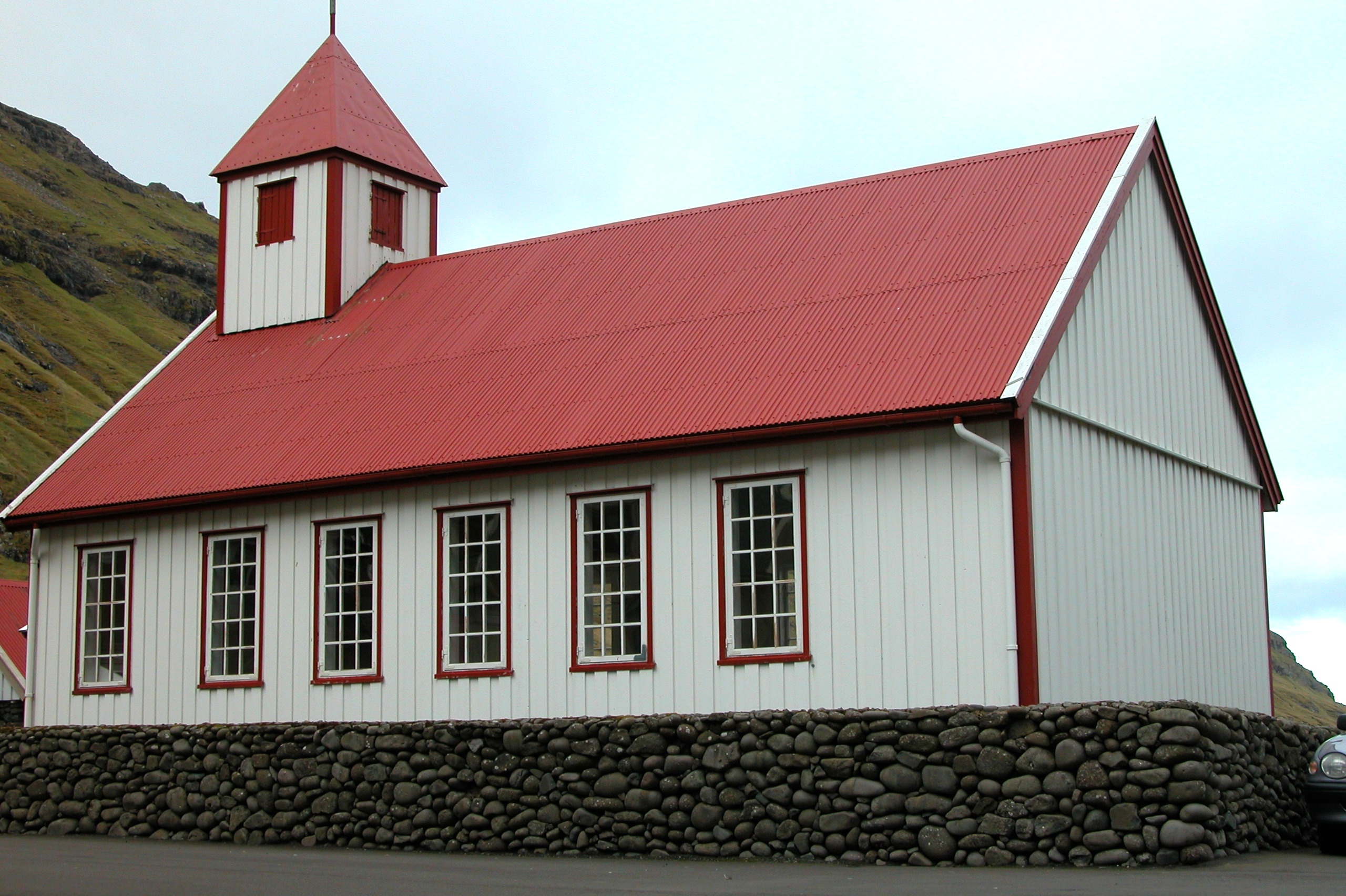 Church of Tjørnuvík on Streymoy, Faroe Islands